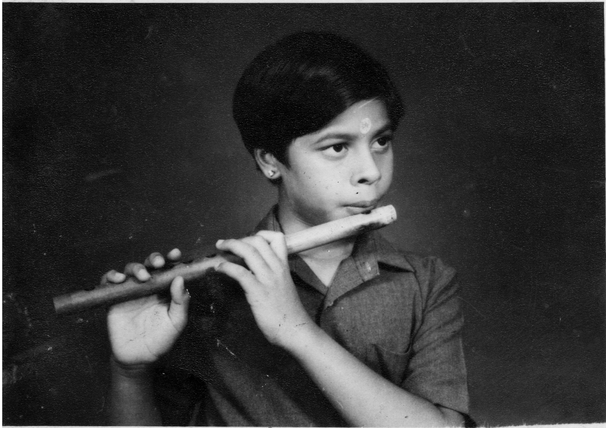 A ten year old Shashank's profile shot by a leading news house